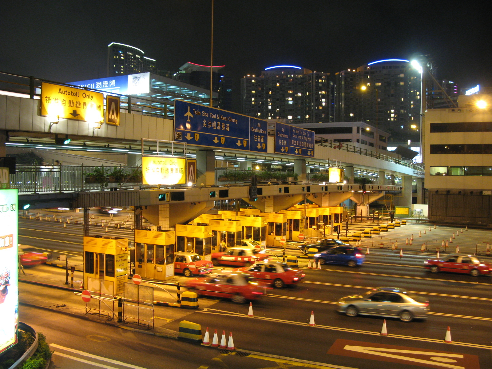 HK Cross Harbour Tunnel at Night